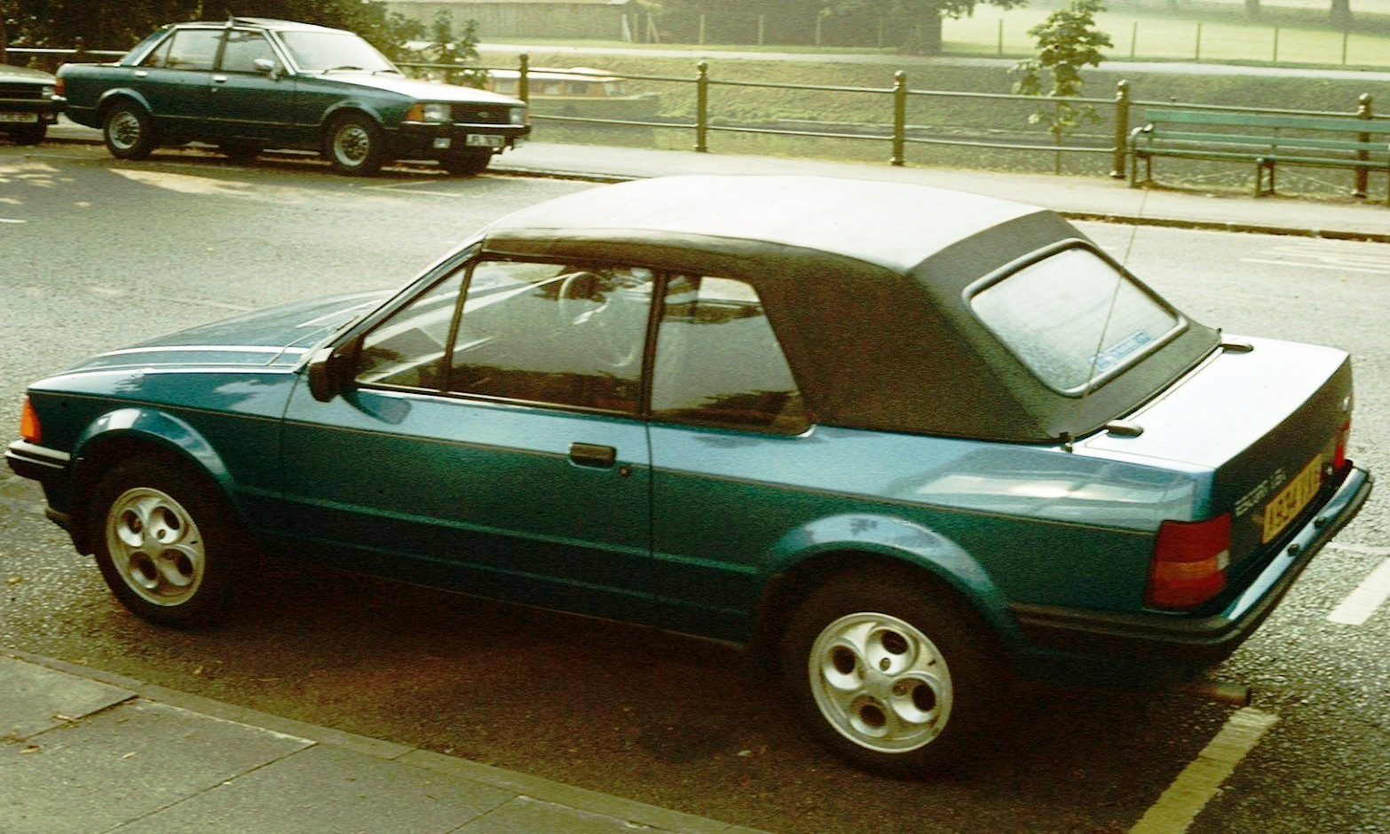 A 1983 Ford Escort Cabriolet. There is also a 2nd generation Ford Granada in the background.